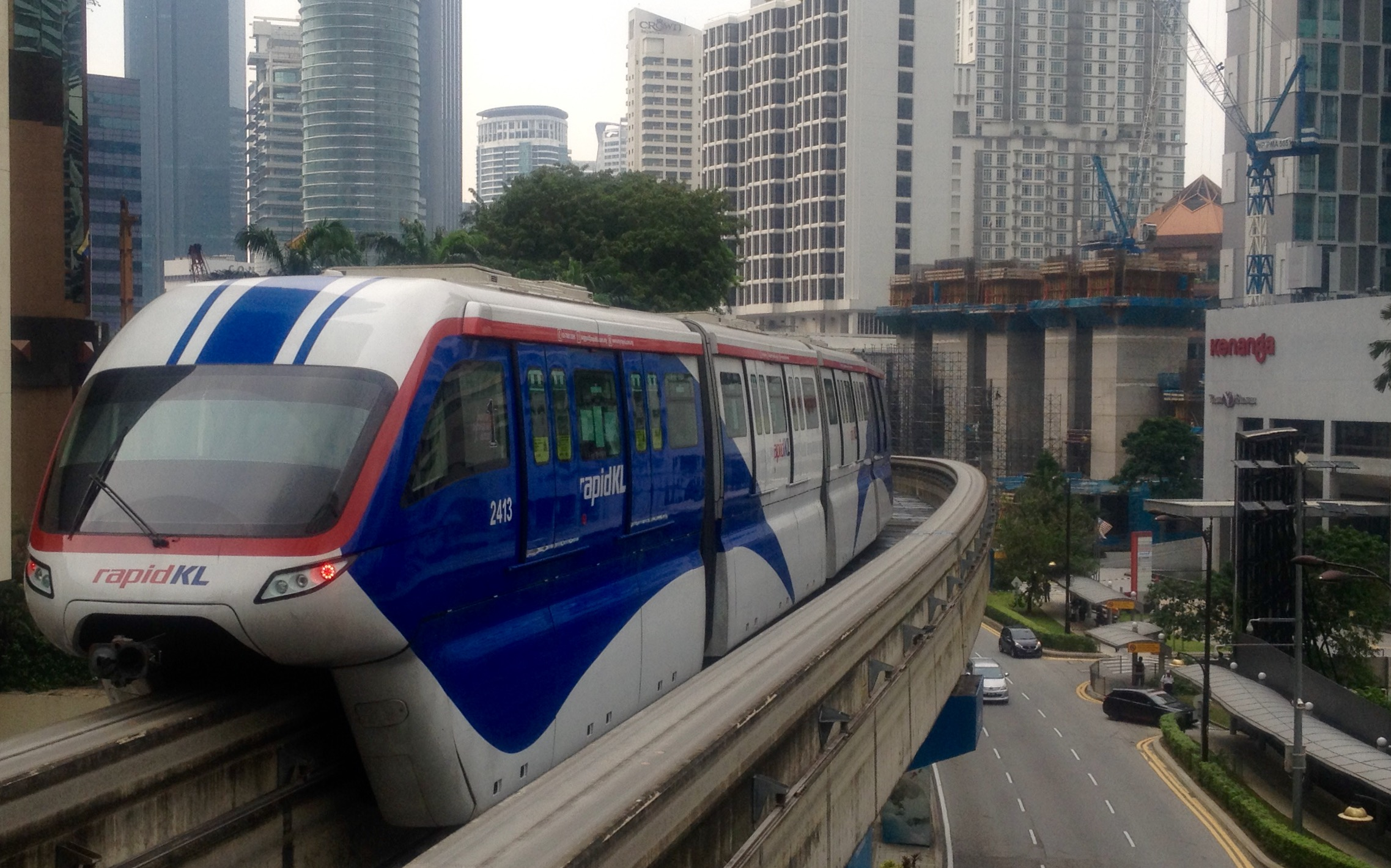 KL Monorail leaving Raja Chulan station.